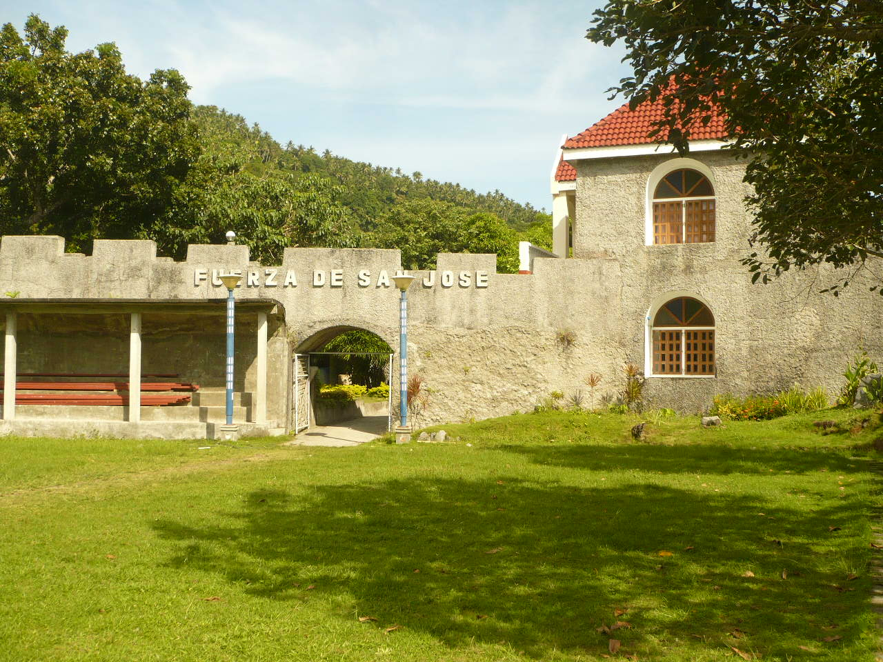 Fuerza San Jose (Fort San Jose) located in Poblacion, Banton, Romblon